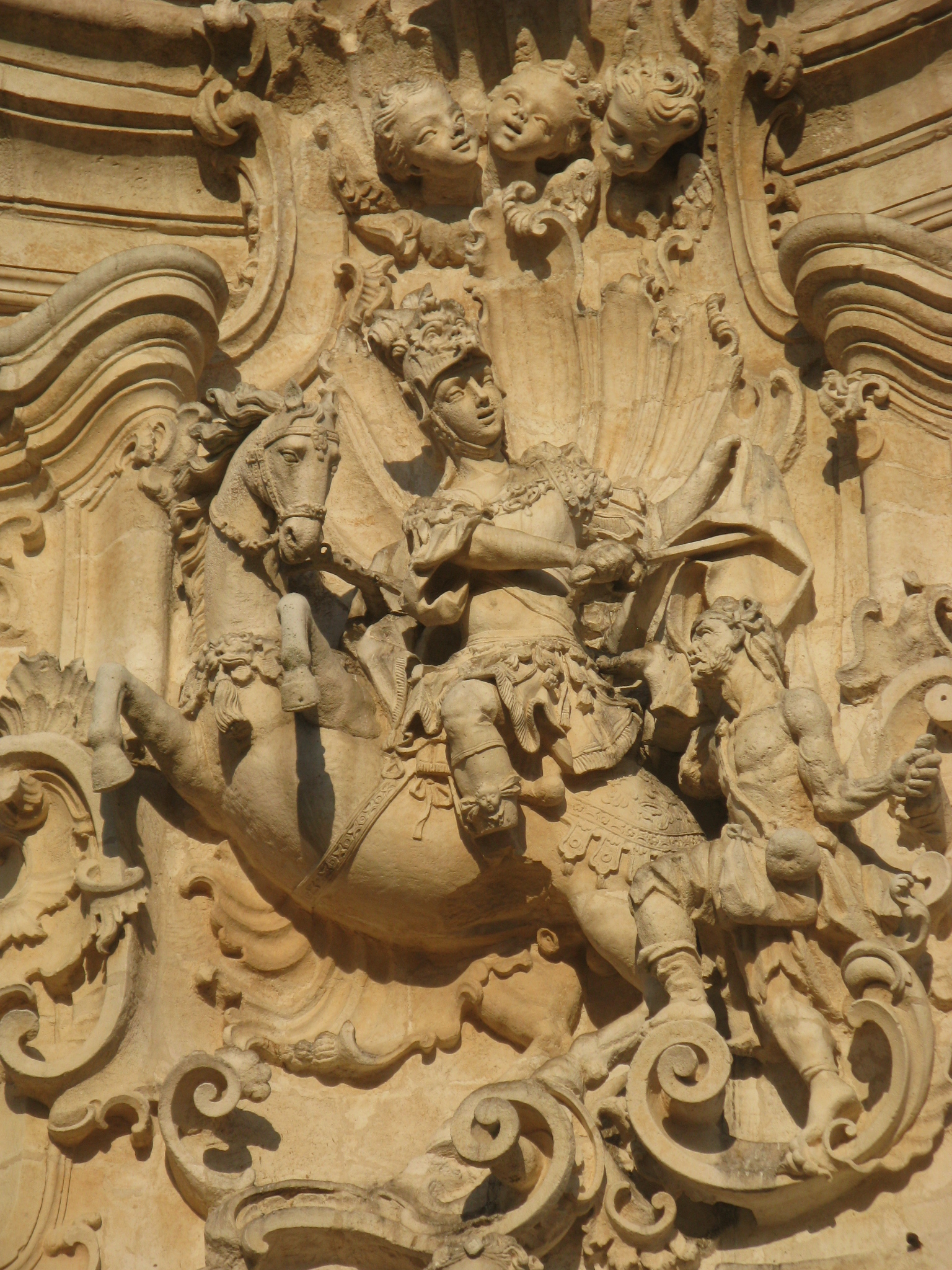 Martina Franca, San Martino Cathedral, St. Martin